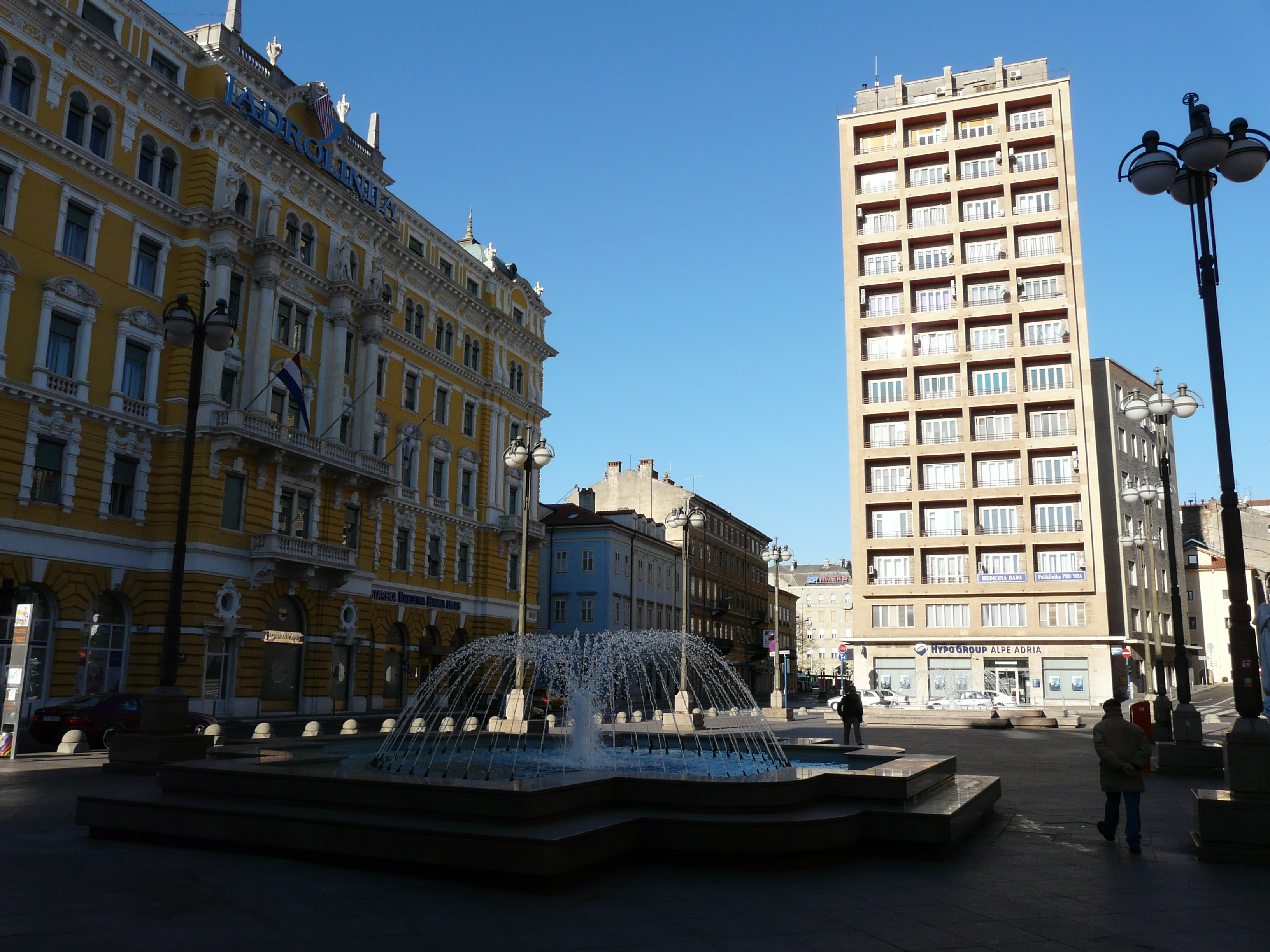 Jadranska Ploschad' or Jadranskiy square in Rijeka